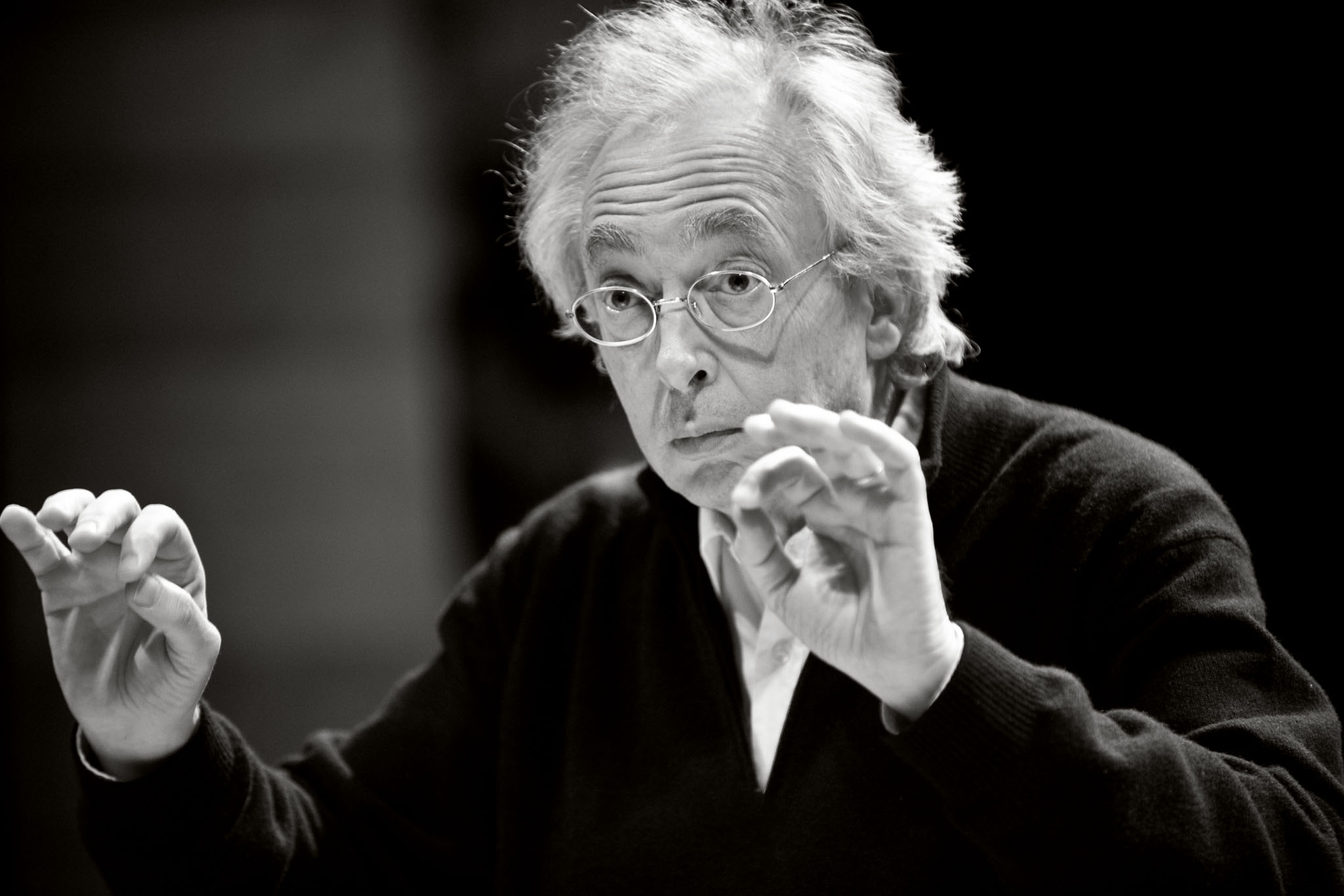 Philippe Herreweghe, Belgian conductor.